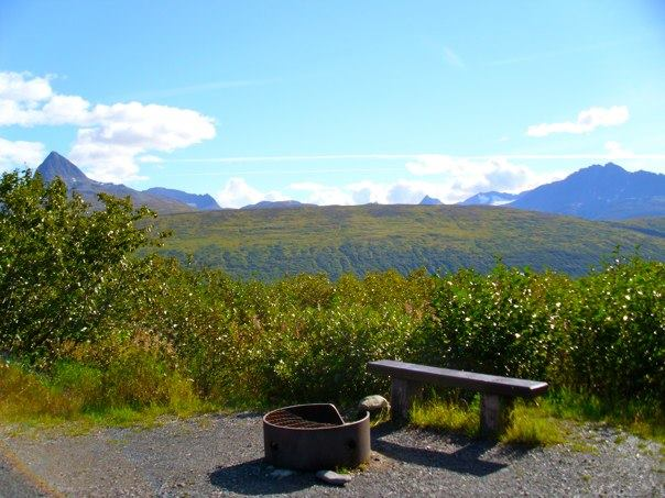 Campsite at Blueberry Lake State Recreation Site, Chugach Mountains, Alaska